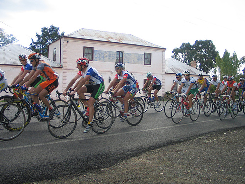 Herald Sun Tour past old Macaroni Factory